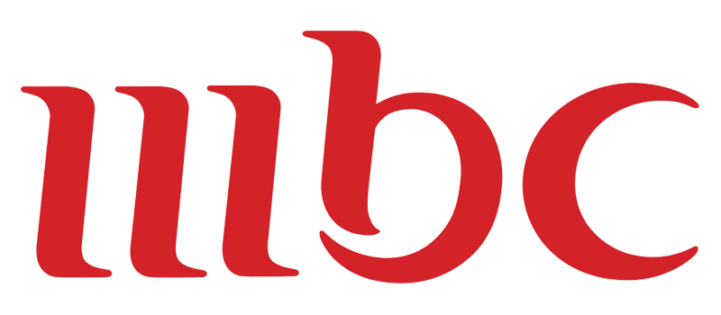 Arabic